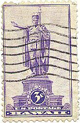 US stamp of 1937 depicting statute of king Kamehameha I